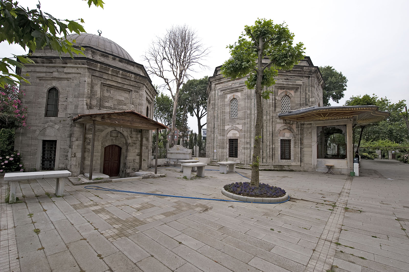 Two türbes or grave monuments, the one with the big awning to the right held the remains of the Sultan.